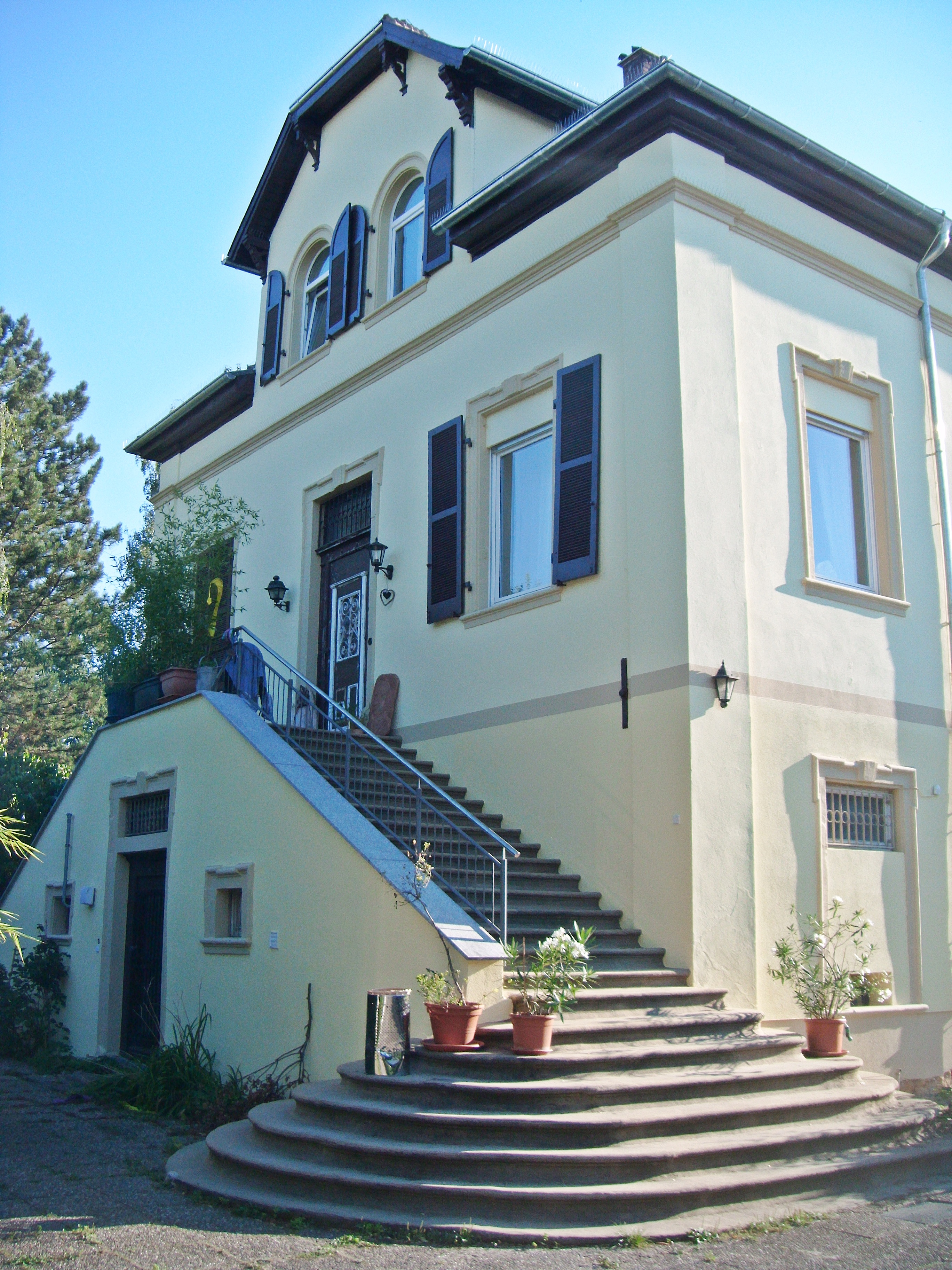 Jagdschloss Lambsheim Front